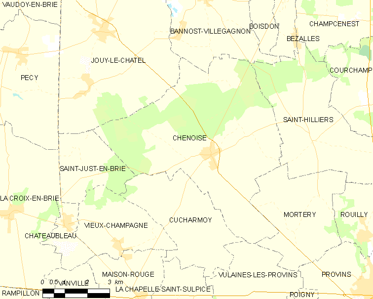 Map of French municipality Chenoise